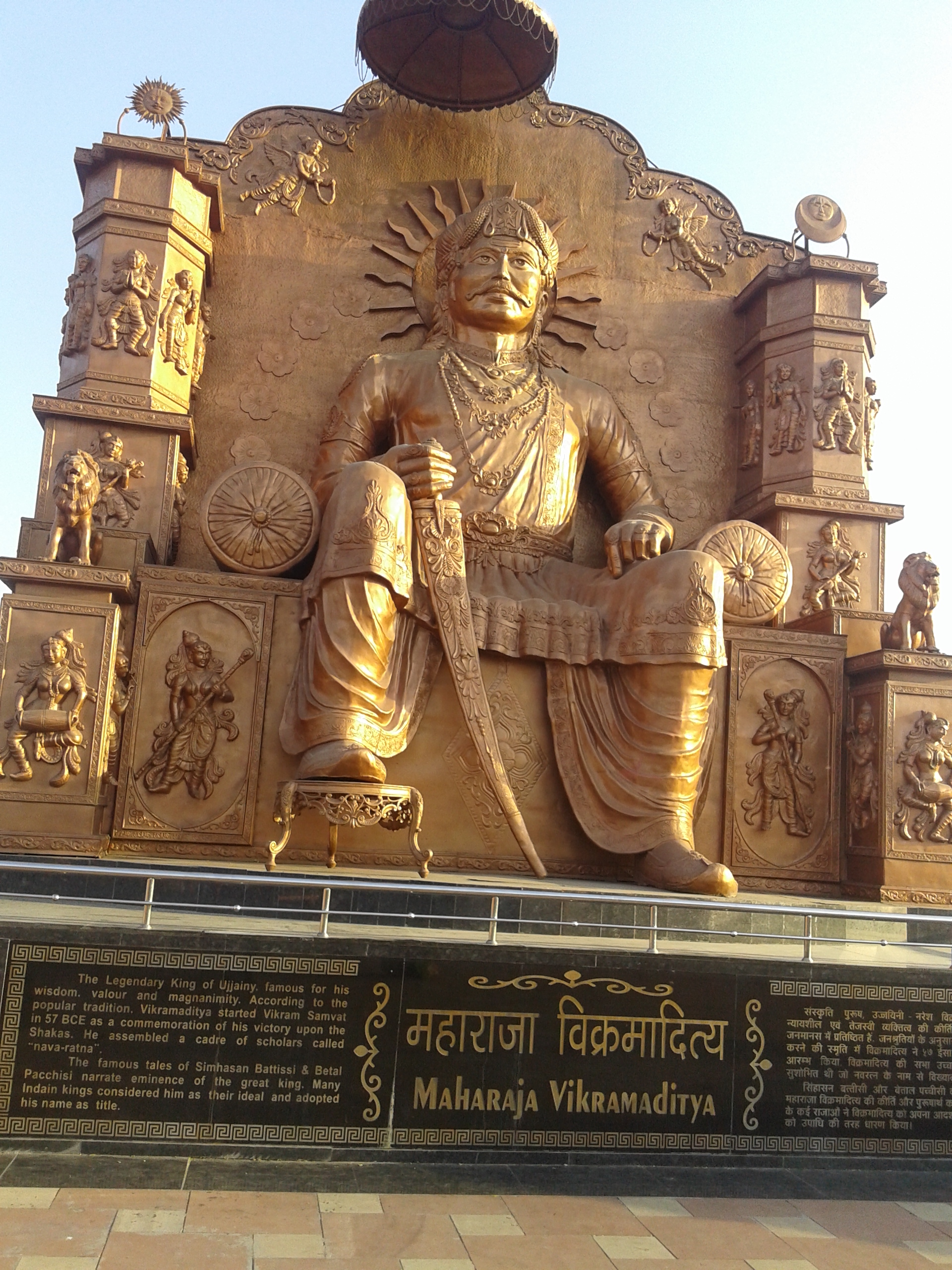 विक्रमादित्यः